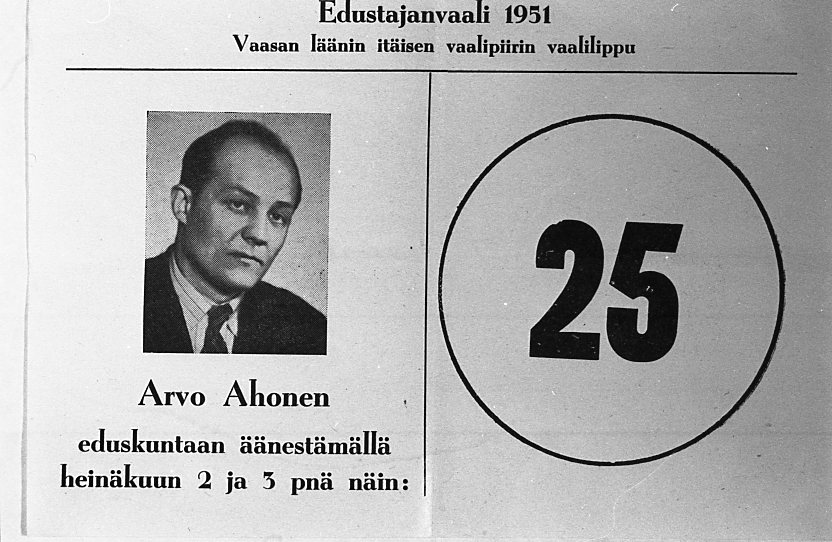 An election campaing brochure of socialdemocrat Arvo Ahonen, who campained for parlamentary election 1951 in Eastern area of Vaasa.